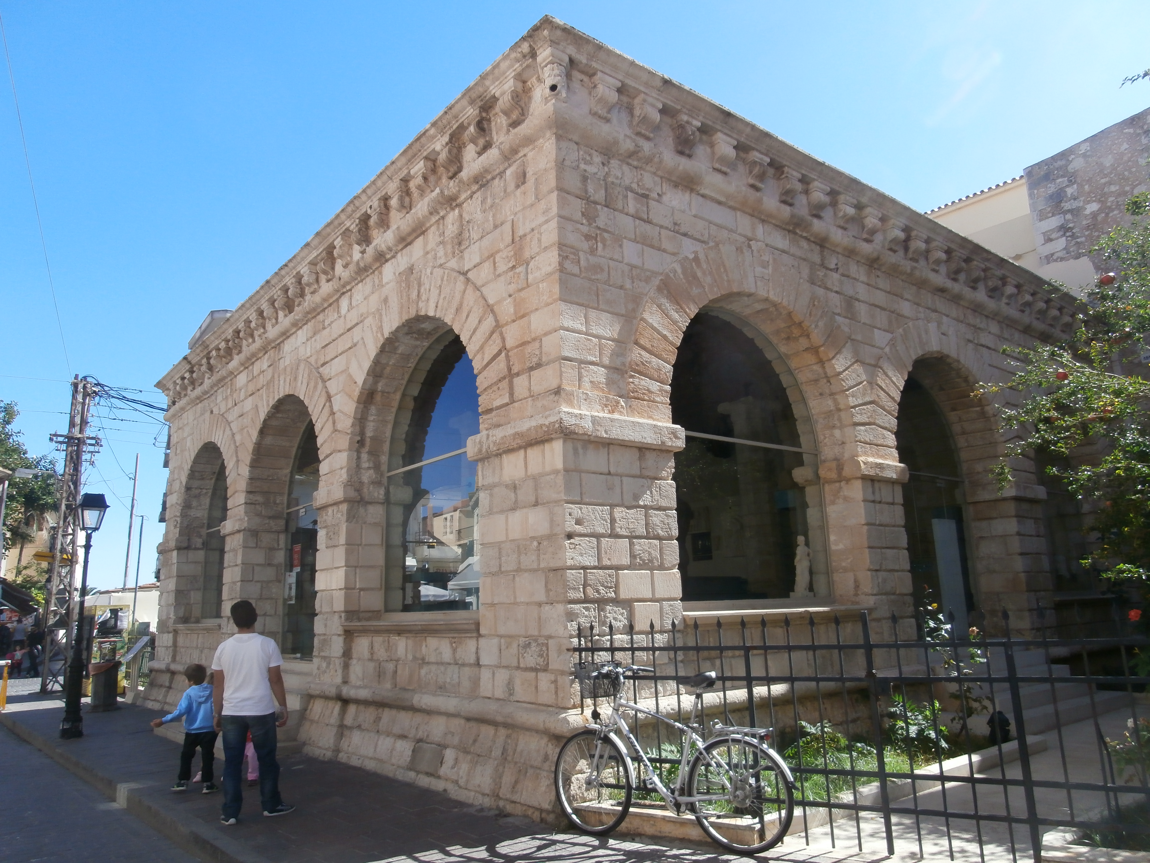 Venitian loggia of Rethymno